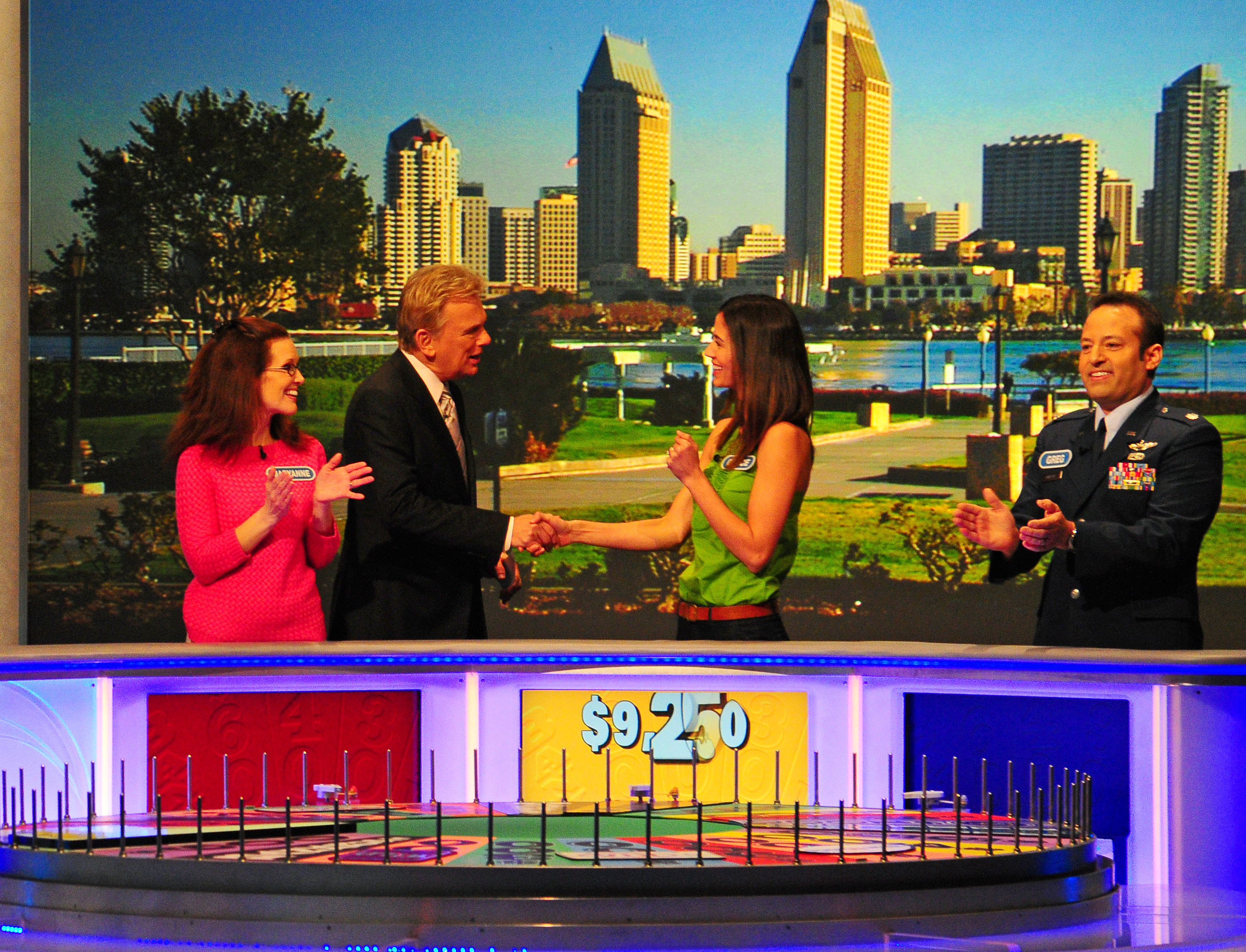 CULVER CITY, Calif. (Jan. 12, 2012) Pat Sajak congratulates Grace French, wife of Chief Navy Counselor Brad French, after solving a puzzle on the set of “Wheel of Fortune” at the Sony Pictures Entertainment Studios during the taping of the Military Spouse Appreciation Week episodes. This is the first time “Wheel of Fortune” has dedicated a show to military spouses. (U.S. Navy photo by Mass Communication Specialist 2nd Class Trevor Welsh/Released) 120112-N-ZS026-080